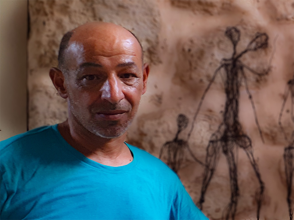 Nihad Dabit and Artist from Israel